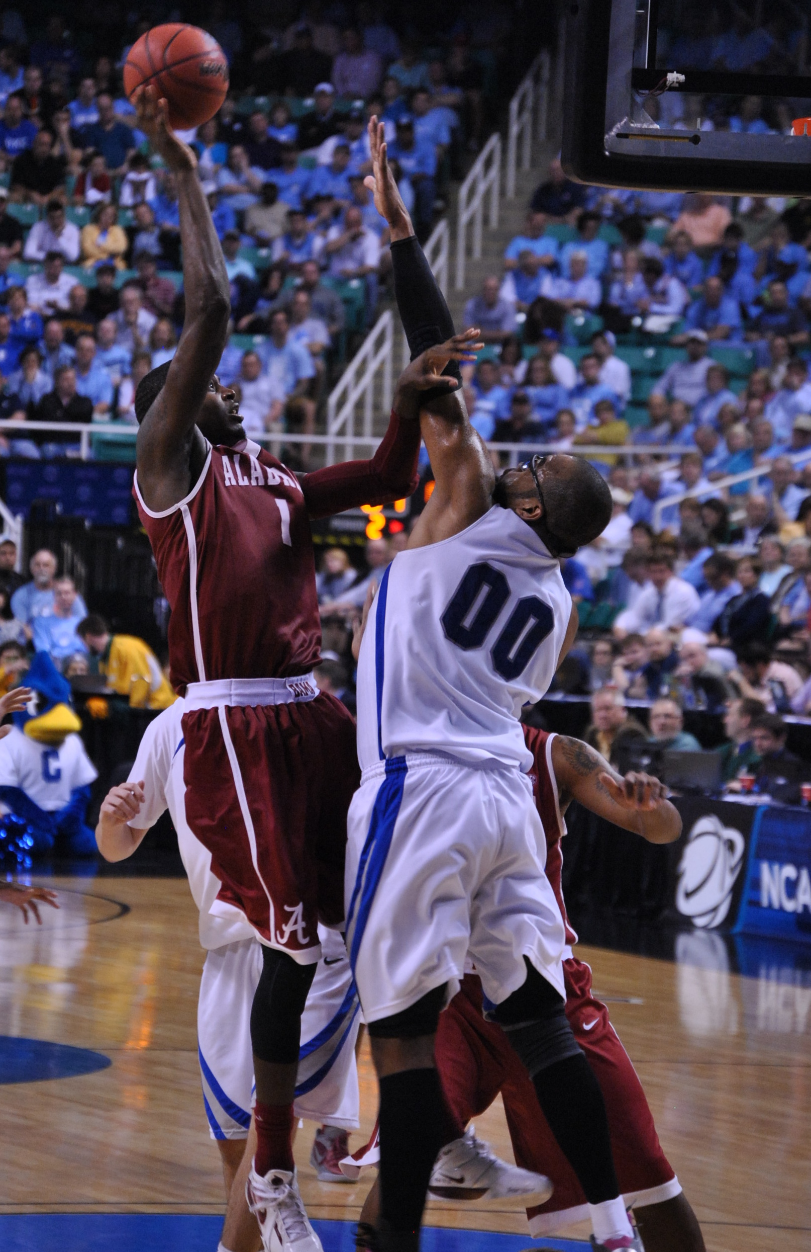 JaMychal Green goes for the shot as Greg Echenique goes for the block